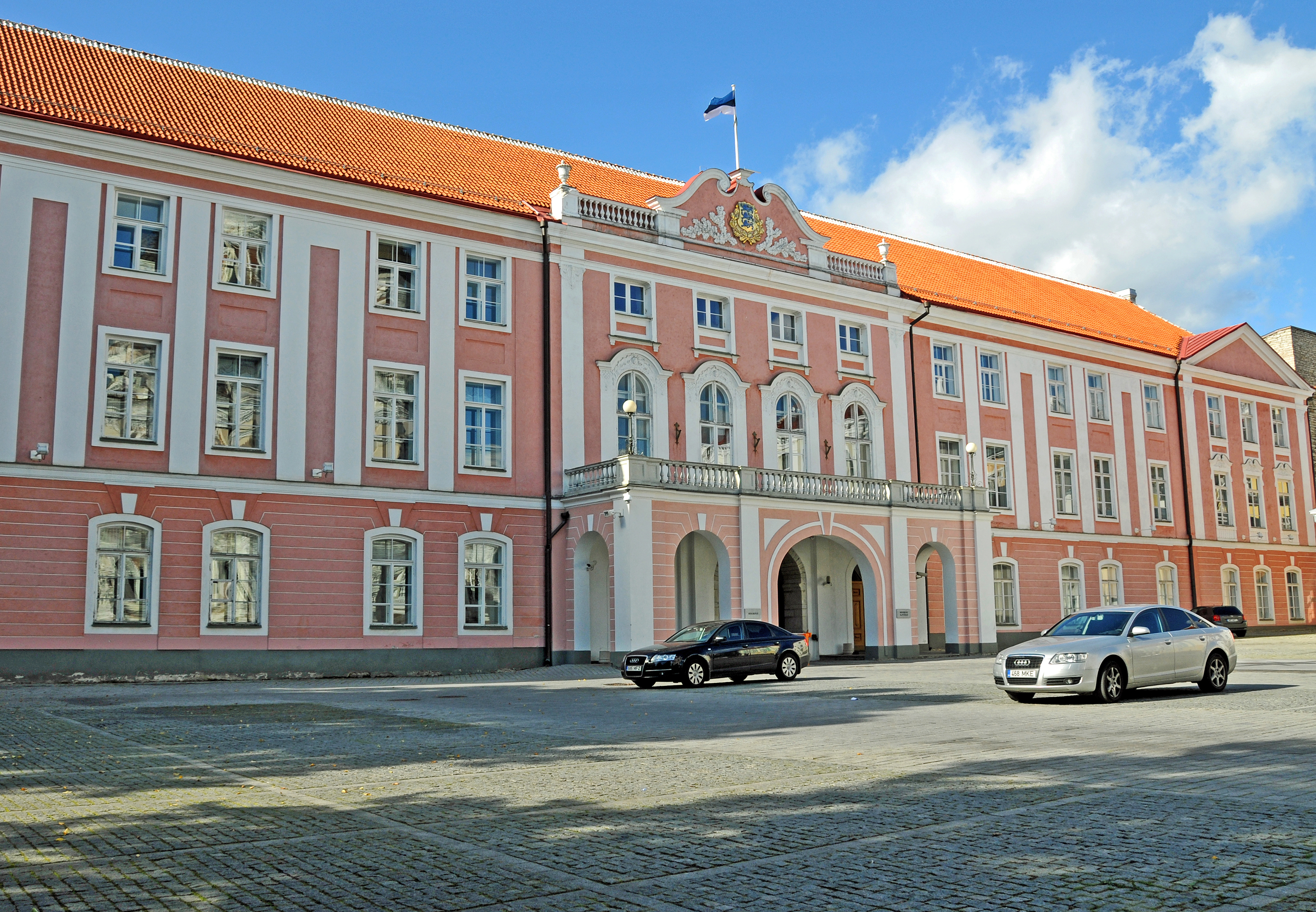 Toompea Castle